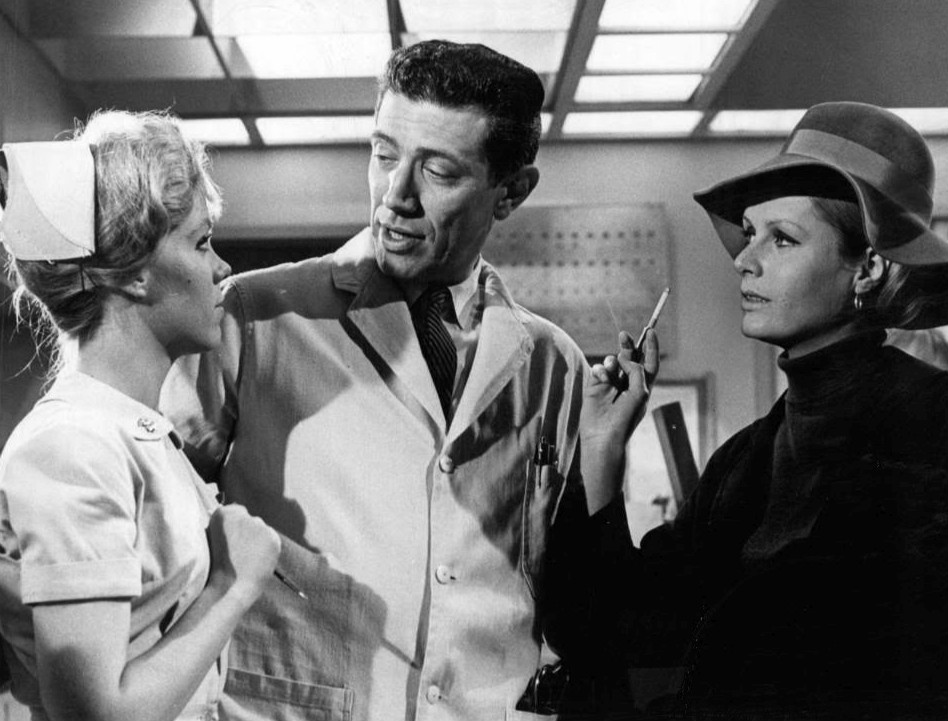 Photo of Zina Bethune, Joseph Campanella and Diana Hyland in a scene from the prime time television drama The Doctors and the Nurses.